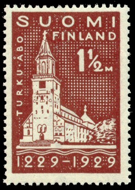 Postage stamp depicting the Turku Cathedral and celebrating 700 years of the city of Turku